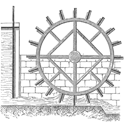 Water wheel - under-shot